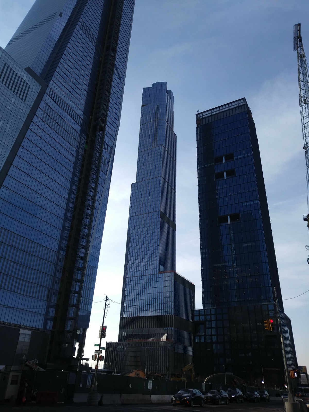 35 Hudson Yards as of February 2019.